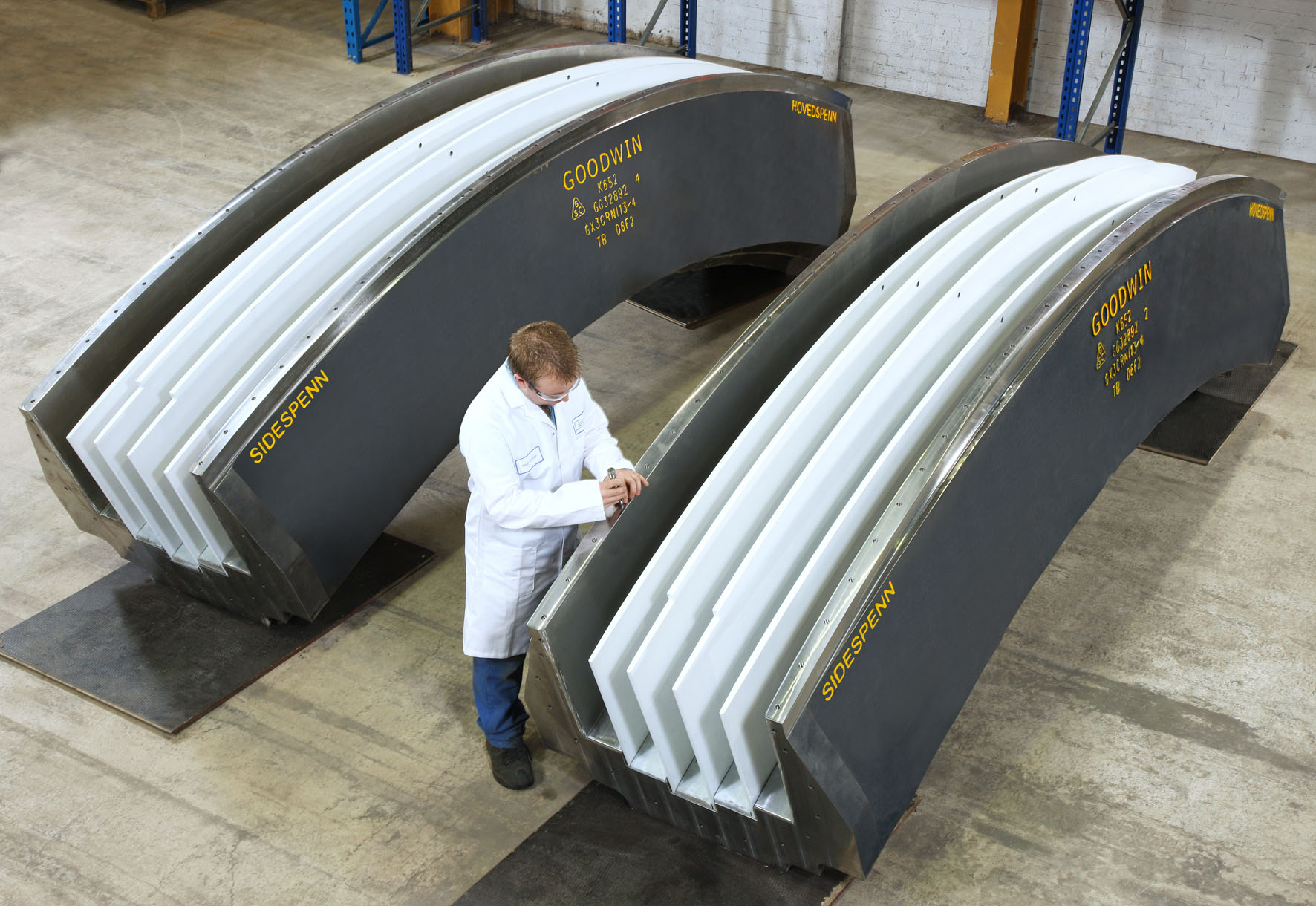 Completed tower saddle for Hardanger bridge, manufactured by Goodwin Steel Castings, ready for shipping